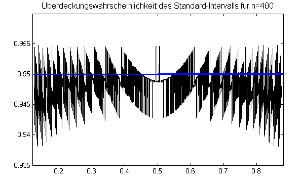 Covering probability for standard interval for n=400.